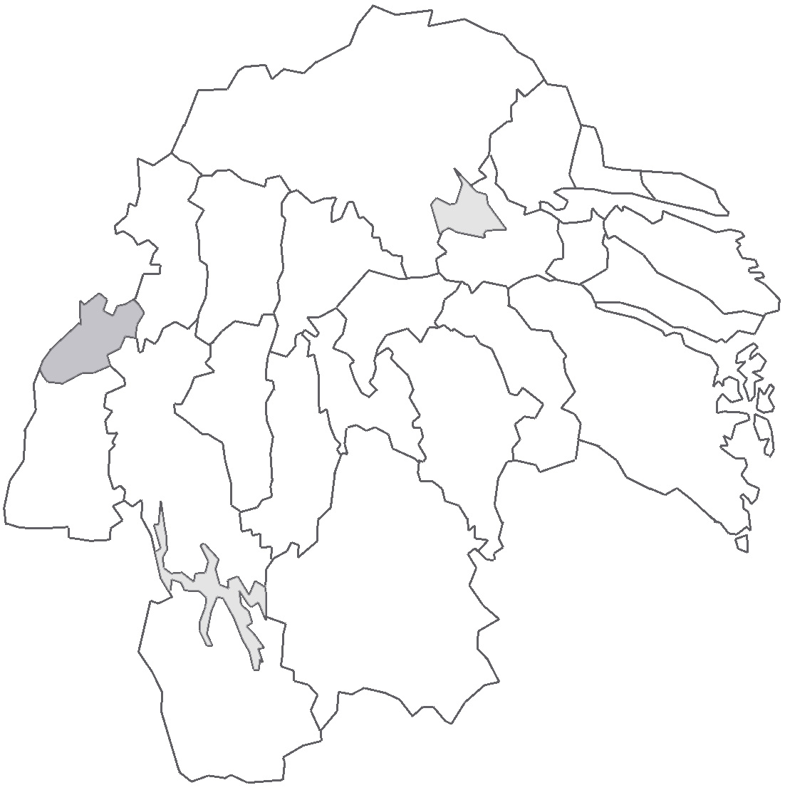 Map describing the location of Dal Hundred in Östergötland County, Sweden.